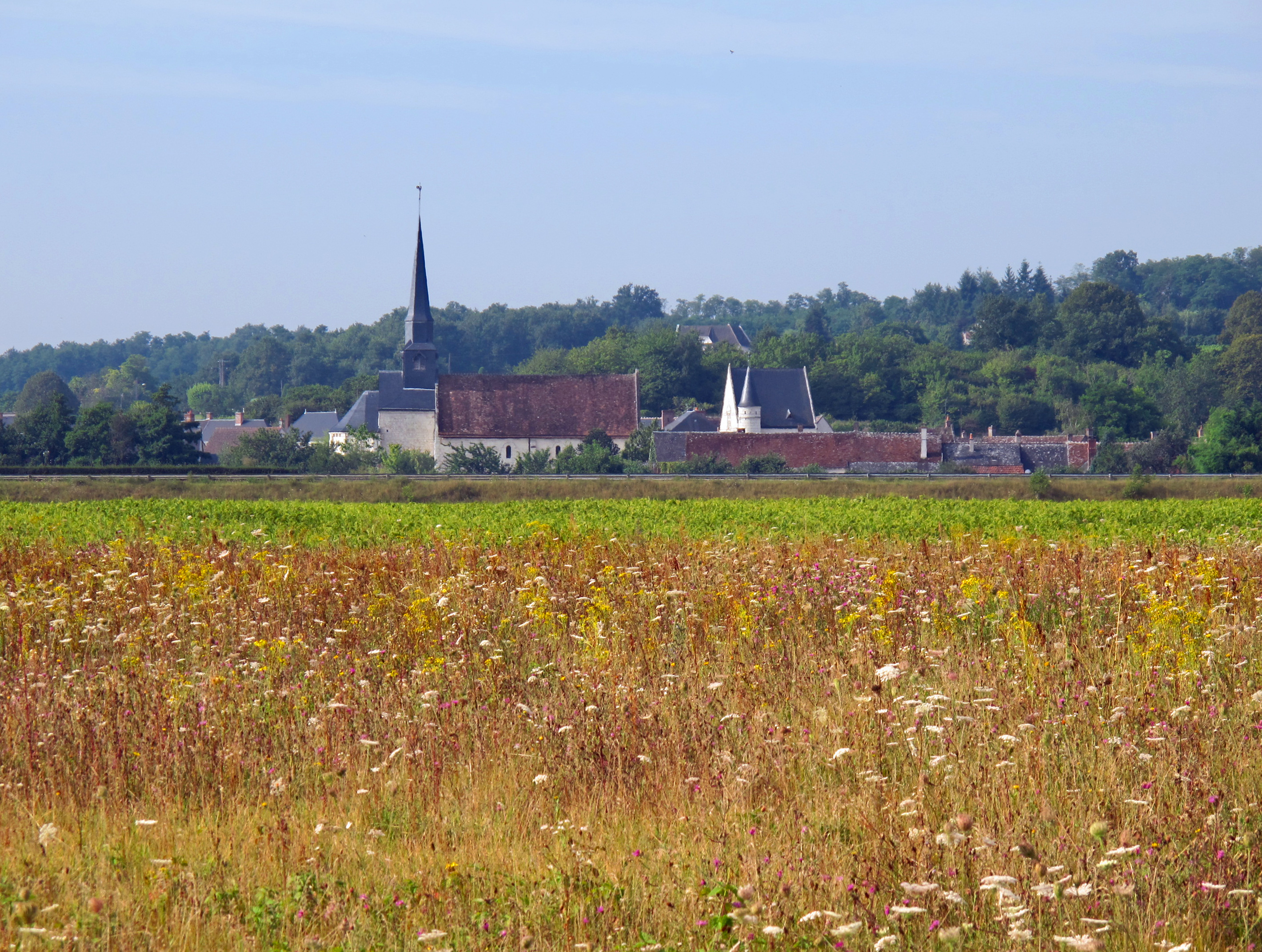 The brand new bell of the small village of Angé (Loir-et-Cher, France), in the valley of the Cher. There is a 16th century house next to the church.